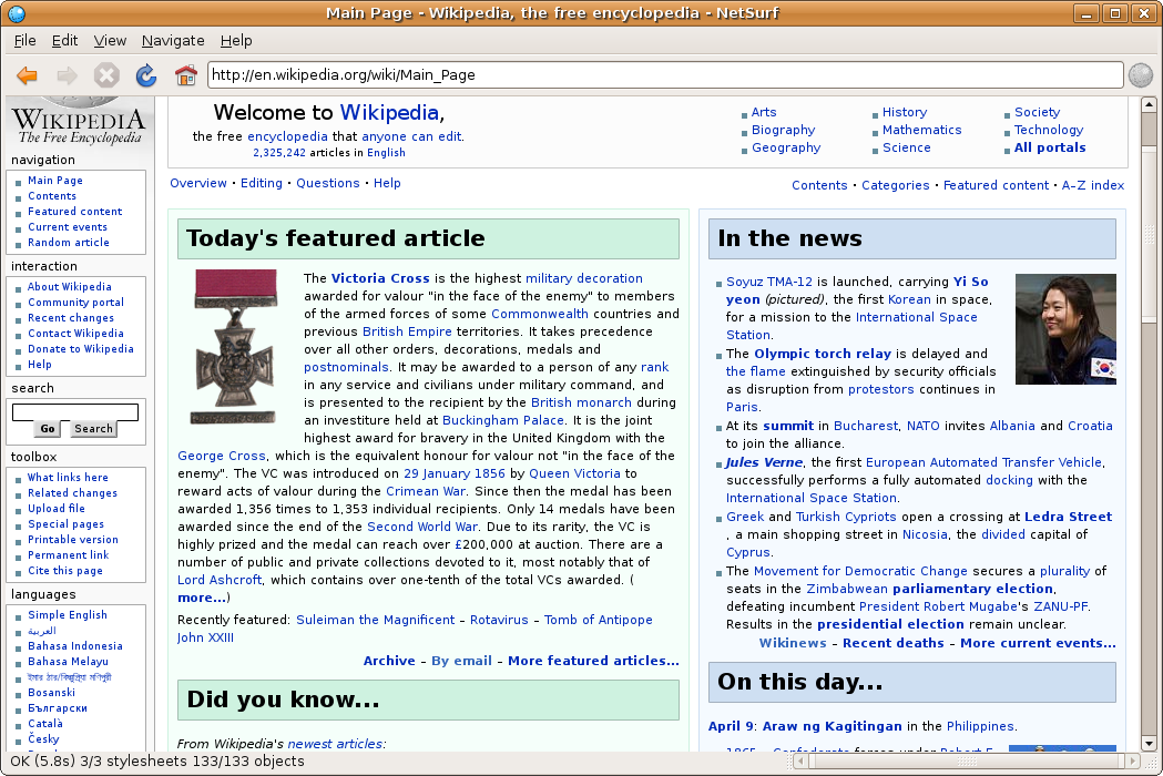 Screenshot of NetSurf.